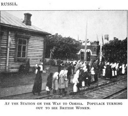 At the station on the way to Odessa. Populace turning out to see British women.